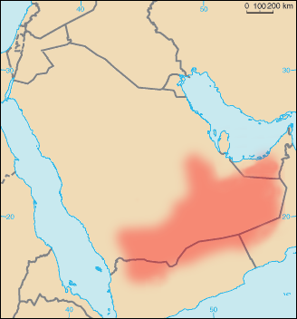 locator map of the desert Rub' al Khali on the Arab Peninsula, without labels, for multilingual use, source: the map file:Empty quarter german.png labelled in German, original authors Flominator and RokerHRO